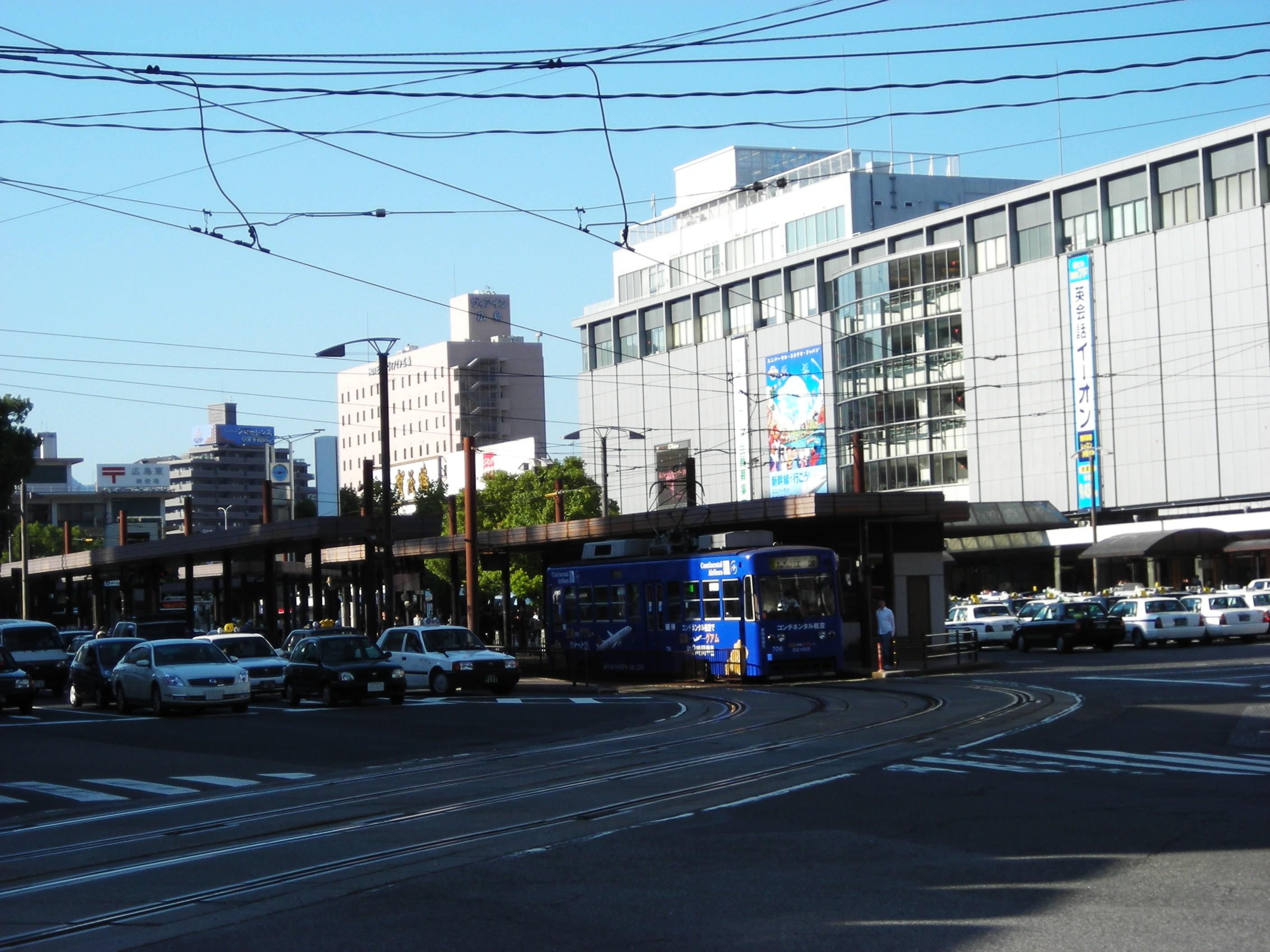 Hiroshima Station